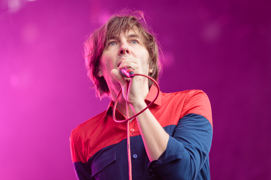 Thomas Mars in a concert with Phoenix at the main stage in the Vigeland Park. The concert was part of Piknik i Parken and took place on 16. June 2018 in Oslo. Lineup:Thomas Mars (vocal)Deck d'Arcy (bass guitar and keyboard)Laurent Brancowitz (guitar)Christian Mazzalai (guitar)Unidentified (drums)Unidentified (keyboard)